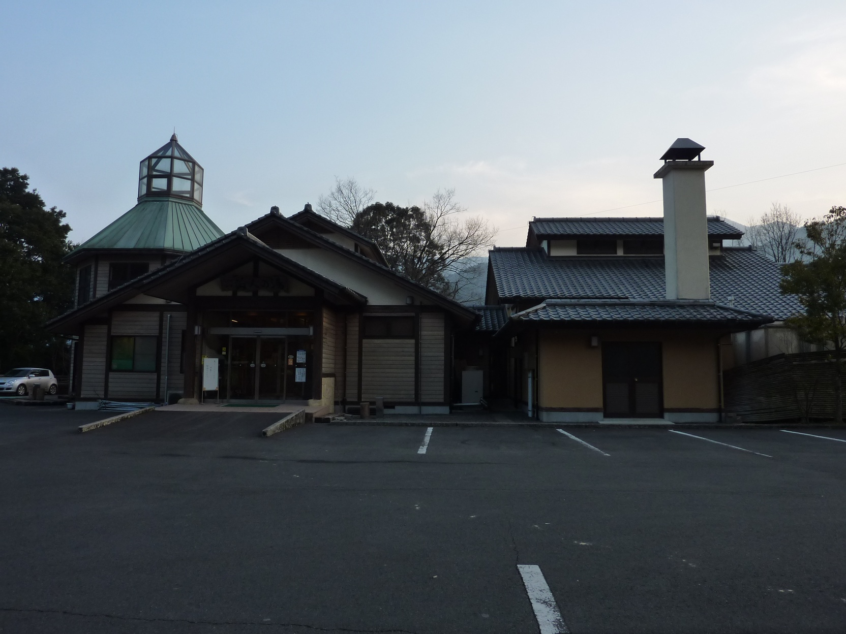 Hourigawa Onsen (Kitagawa-machi, Nobeoka City, Miyazaki, Japan)